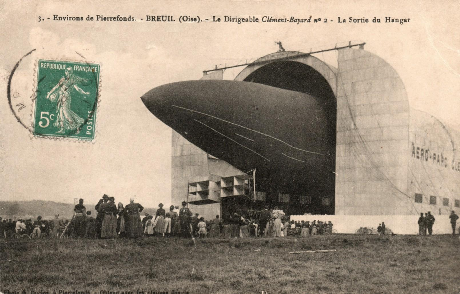 Airship Clément-Bayard at Breuil (Oise - France) in 1910 - vintage postcard - personal collection